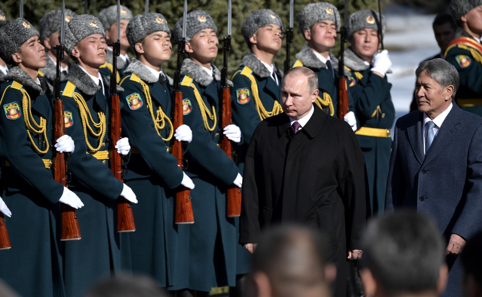 Russian president Vladimir Putin in Kyrgyzstan. February 2017.